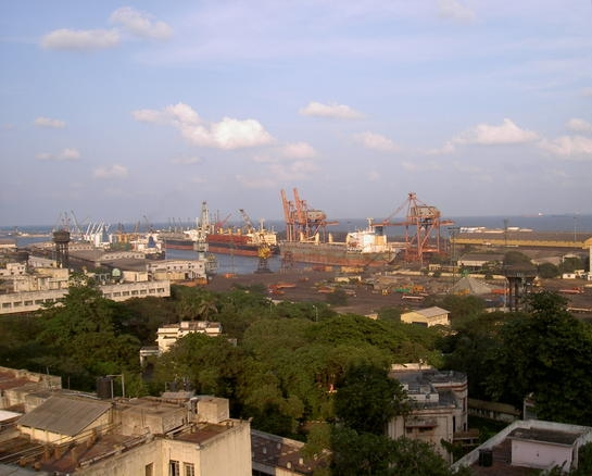 A small view of the Chennai Port